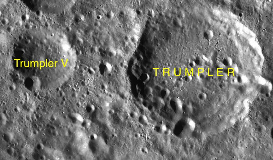 Part of the chart LAC-49 used for the presentation.